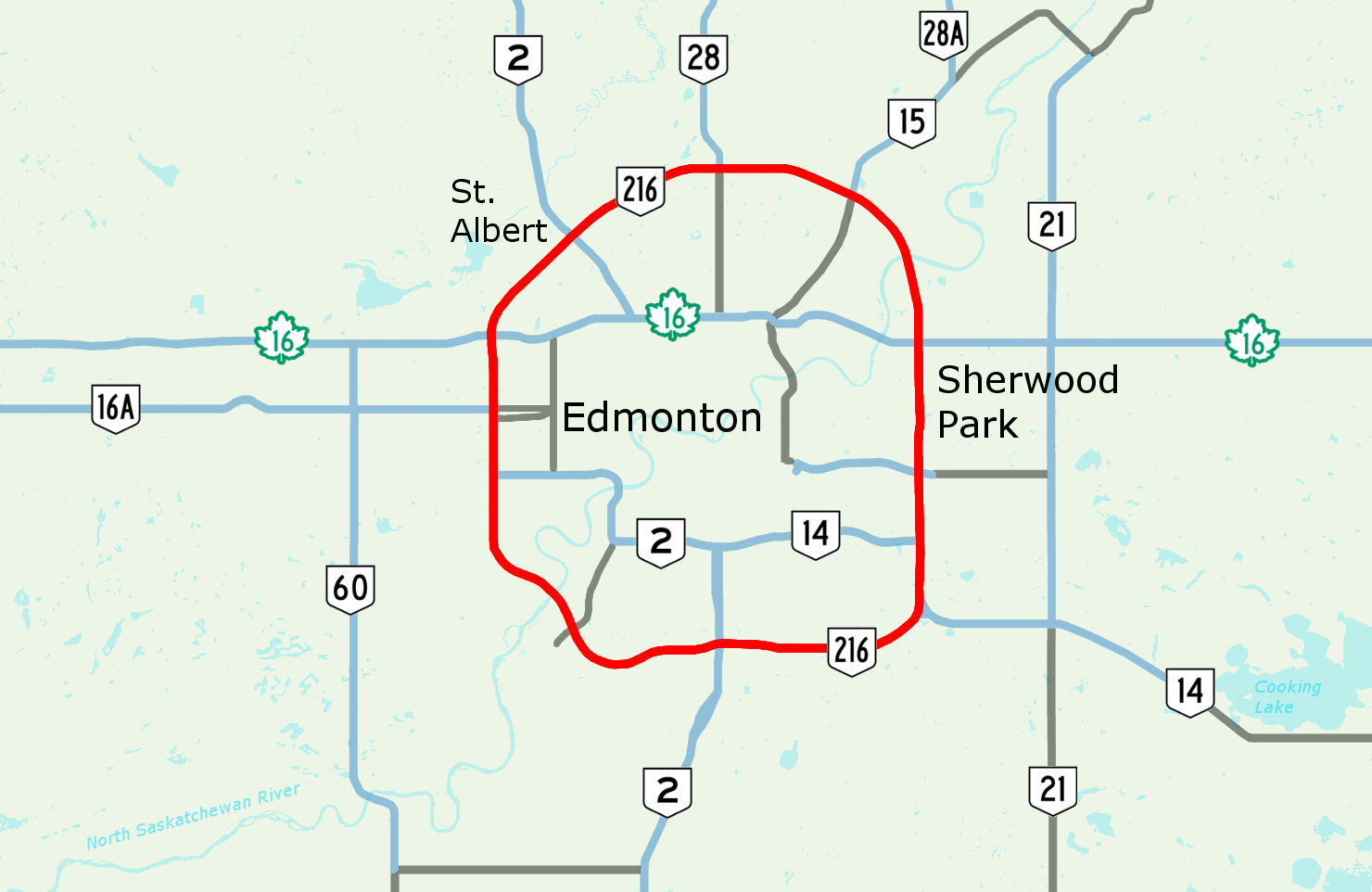 OpenStreetMap of Edmonton, Sherwood Park, and St. Albert, Alberta, Canada